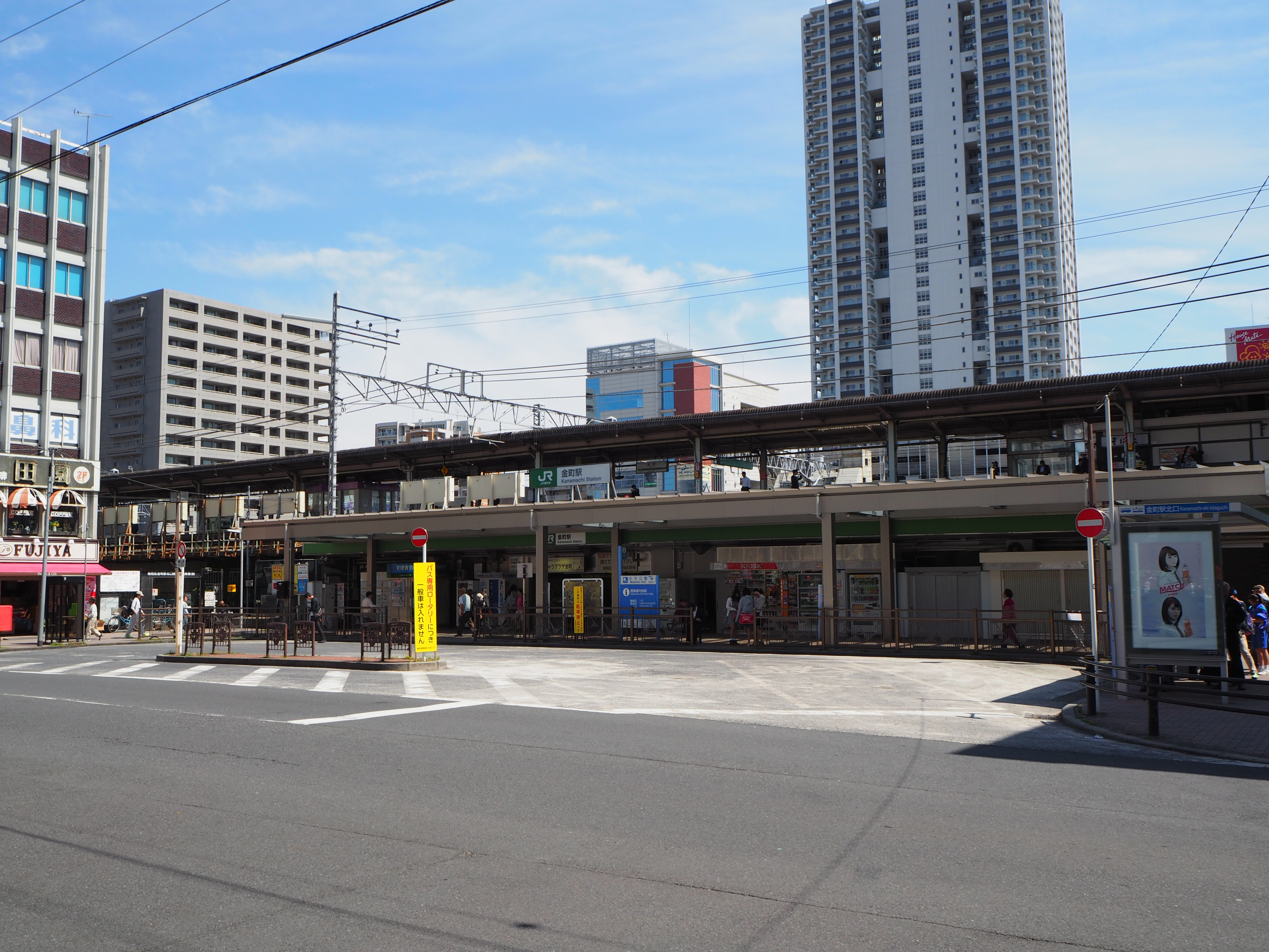 North Entrance of Kanamachi Station